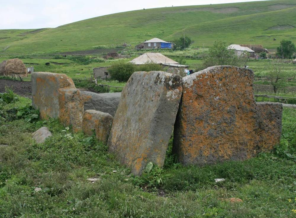 Ruins of church in Cholmani. Tsalka district.